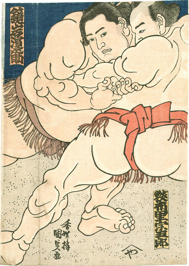 Sumo wrestling, three pieces, middle part